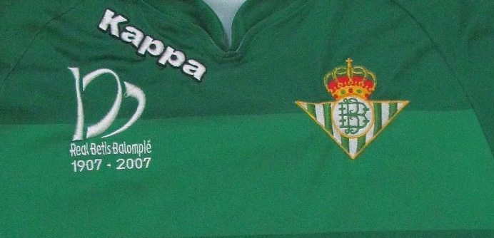 Real Betis Anniversary Shirt 1907-2007